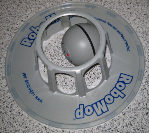 Robomop, a domestic robot to sweep floors